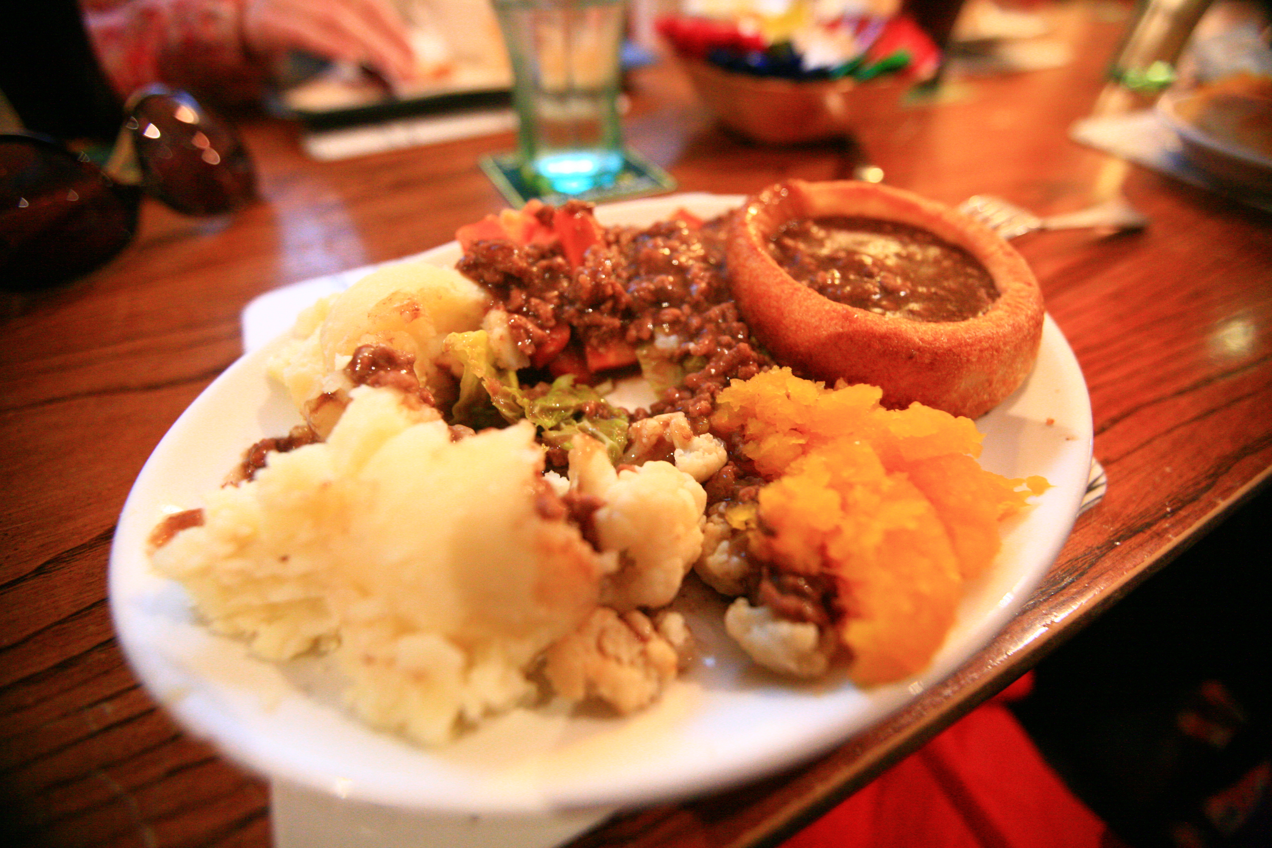 Mince and tatties is a popular Scottish dish, consisting of minced beef and mashed potato